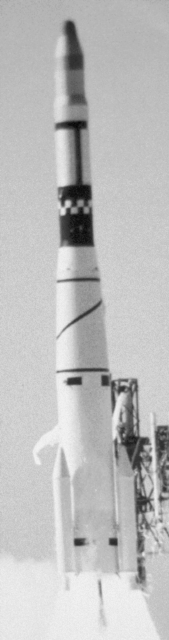 Launch of rocket Thor SLV-2A Agena D with satellite Corona 89.